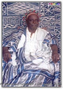 Foto Momo Wangmene Joseph, 18th King of Bangang, Cameroon.